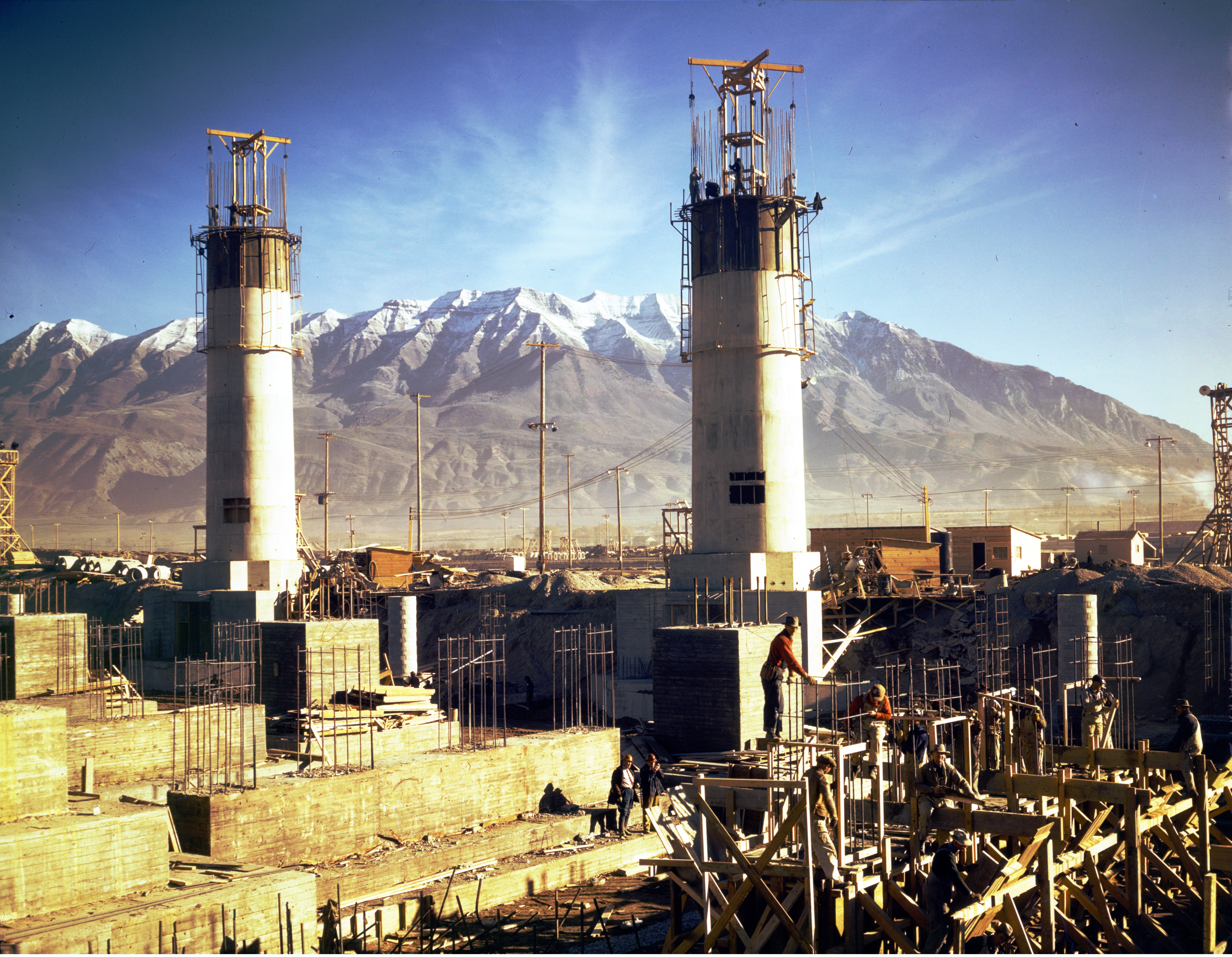 Partly finished open hearth furnaces and stacks for a steel mill under construction which will soon be producing vitally needed steel, Columbia Steel Co., Geneva, Utah